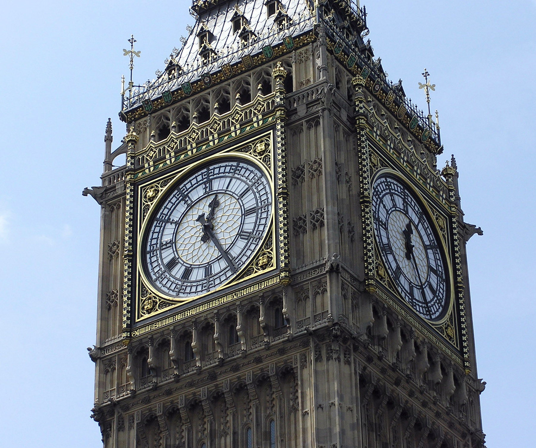 Big Ben. Photographed by Adrian Pingstone in June 2005 and released to the public domain.